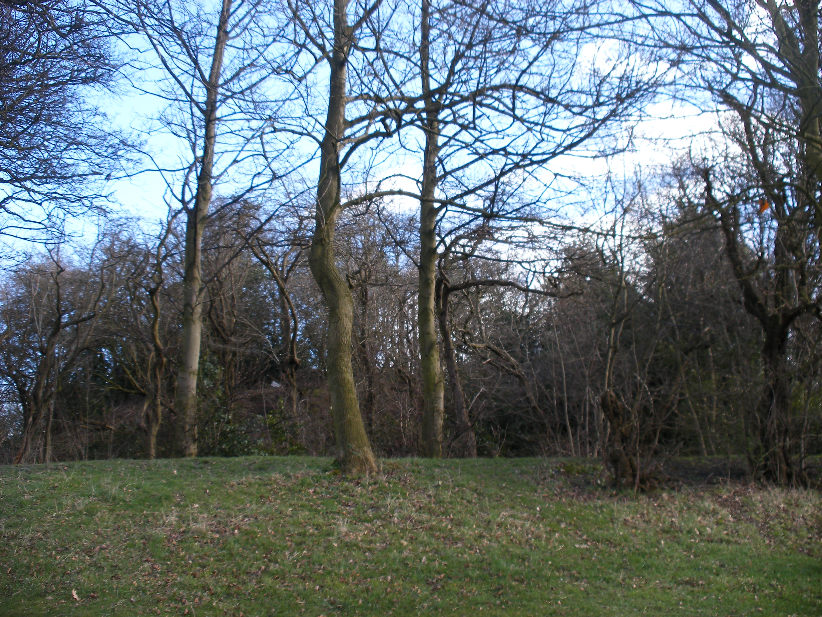 The motte at Lowe Hill in Thornes Park Wakefield